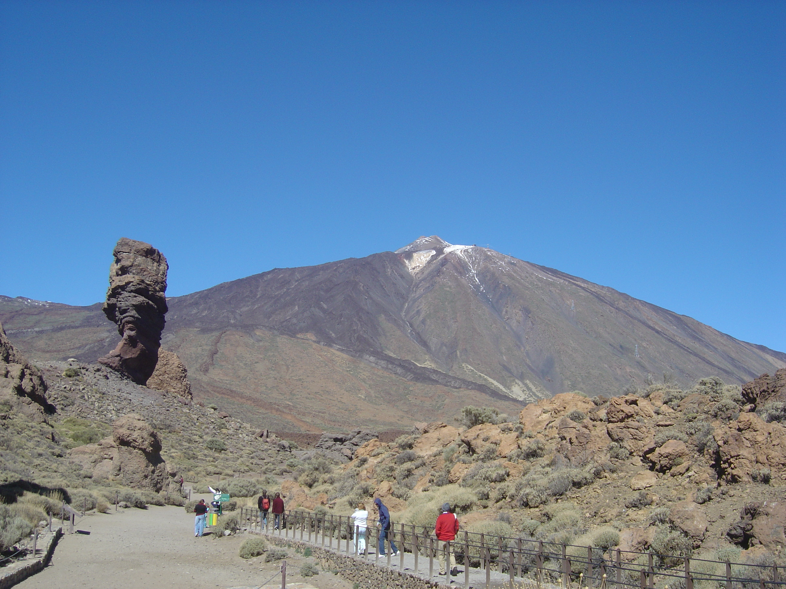 Pico de Tedie with a rock formation called "Gods finger" in the forground.